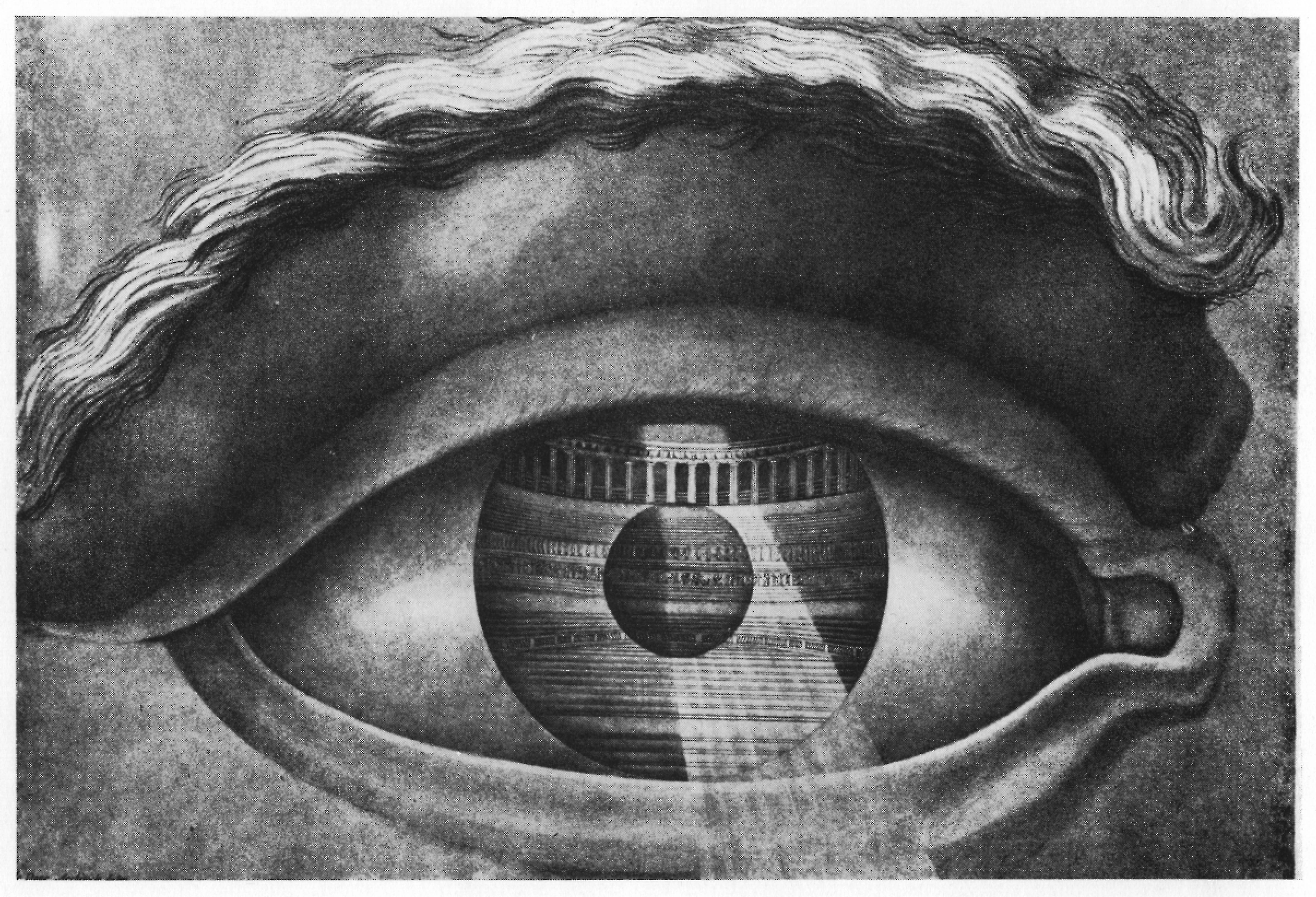 Interior of the municipal theatre of Besançon (built by Ledoux in 1784), seen in the mirror of an eye.